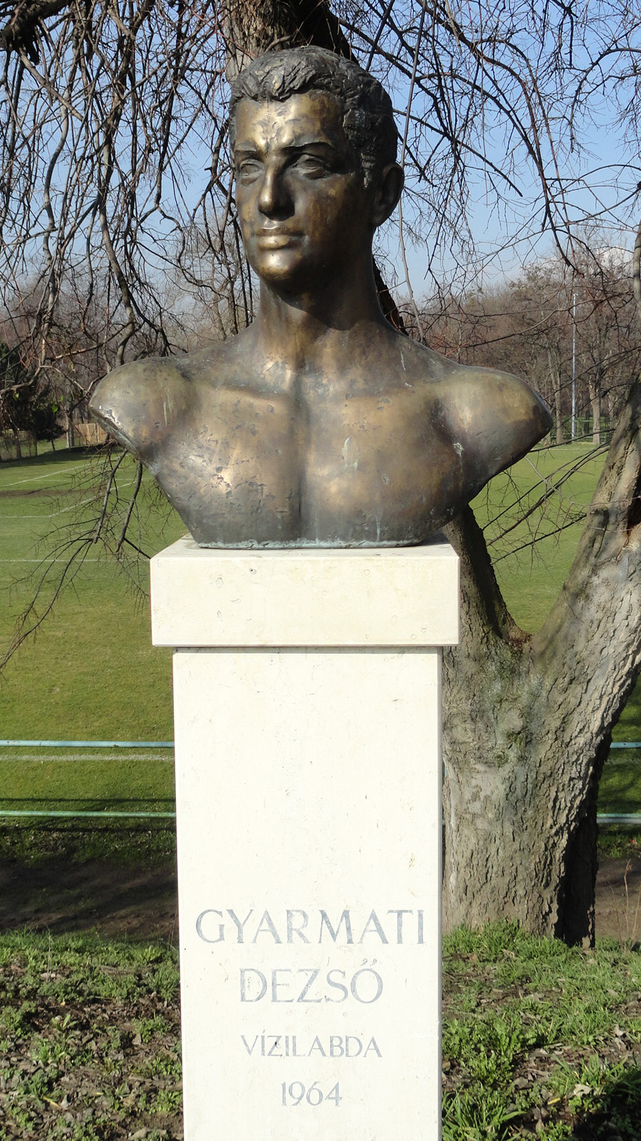 Dezső Gyarmati , hungarian water polo player. 1964 Summer Olympics - Gold Medal Winner